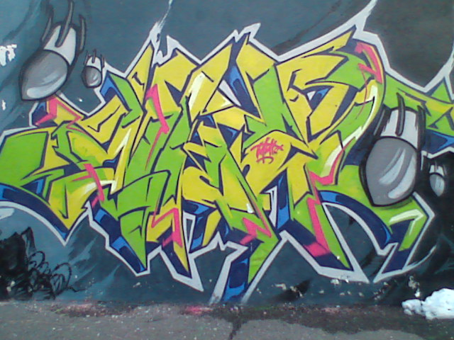 Graffiti on Via Monte Cengio, Triante, Monza, Italy